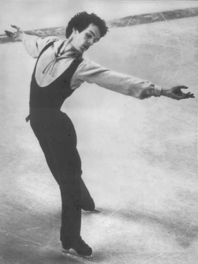 1976 Press Photo John Curry won him men's figure skating at Winter Olympics